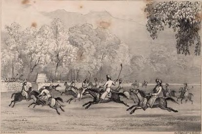 photo by vigne shows polo match in skardu ( as author said)